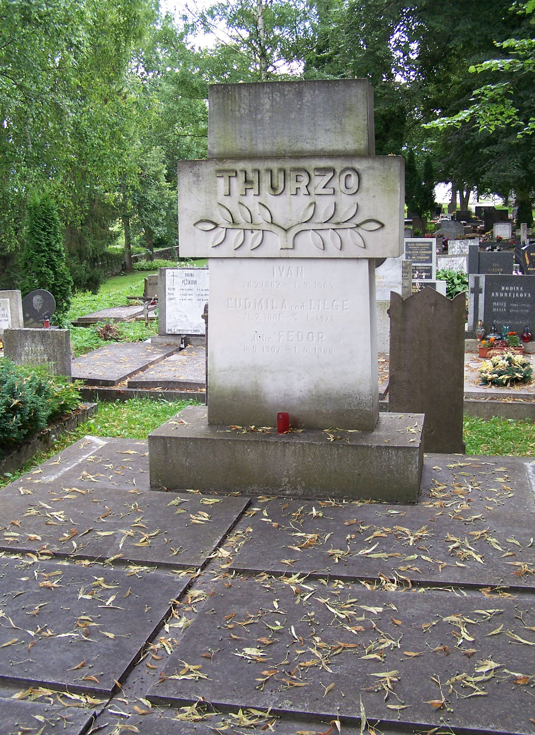 Grave of Ivan Thurzo at the National Cemetery in Martin, Slovakia